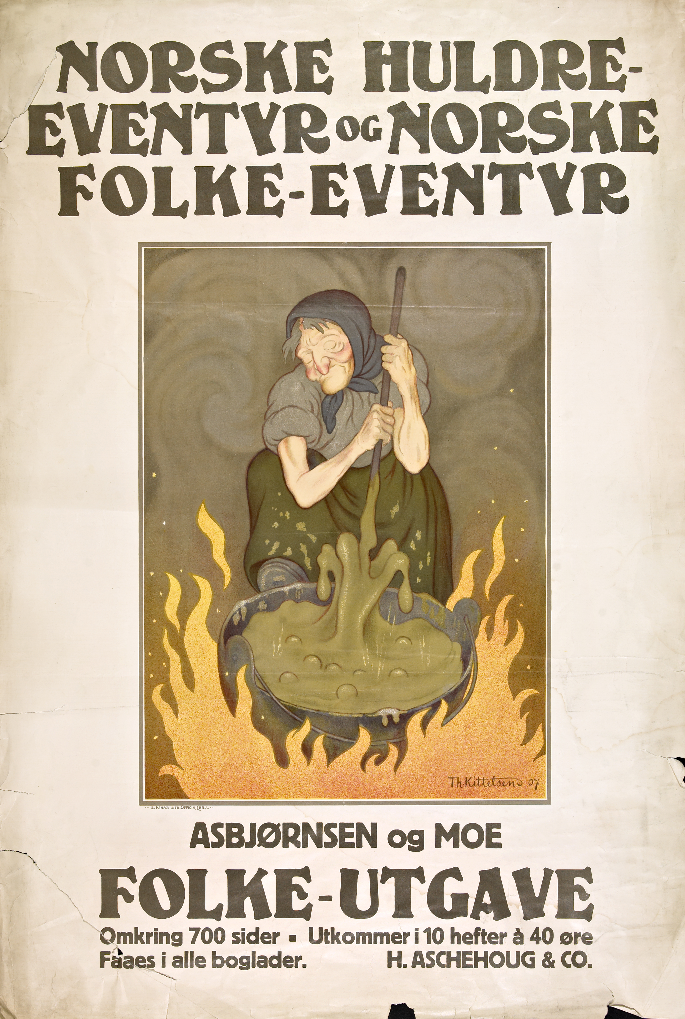 Beskrivelse / Description: Plakat / Poster (Reklameplakater for bøker/book posters) Kreditering / Credit: Theodor Kittelsen (1857-1914) Utgiver / Publisher: Aschehoug Trykkeri / Printing House: L. Fehr’s lith. Officin Trykkemetode / Printing method: litografisk trykk, 97,5 x 66 cm Dato / Date: [1914] Eier / Owner Institution: Nasjonalbiblioteket / National Library of Norway Lenke / Link: Bildesignatur / Image Number: no-nb_plktr_01911